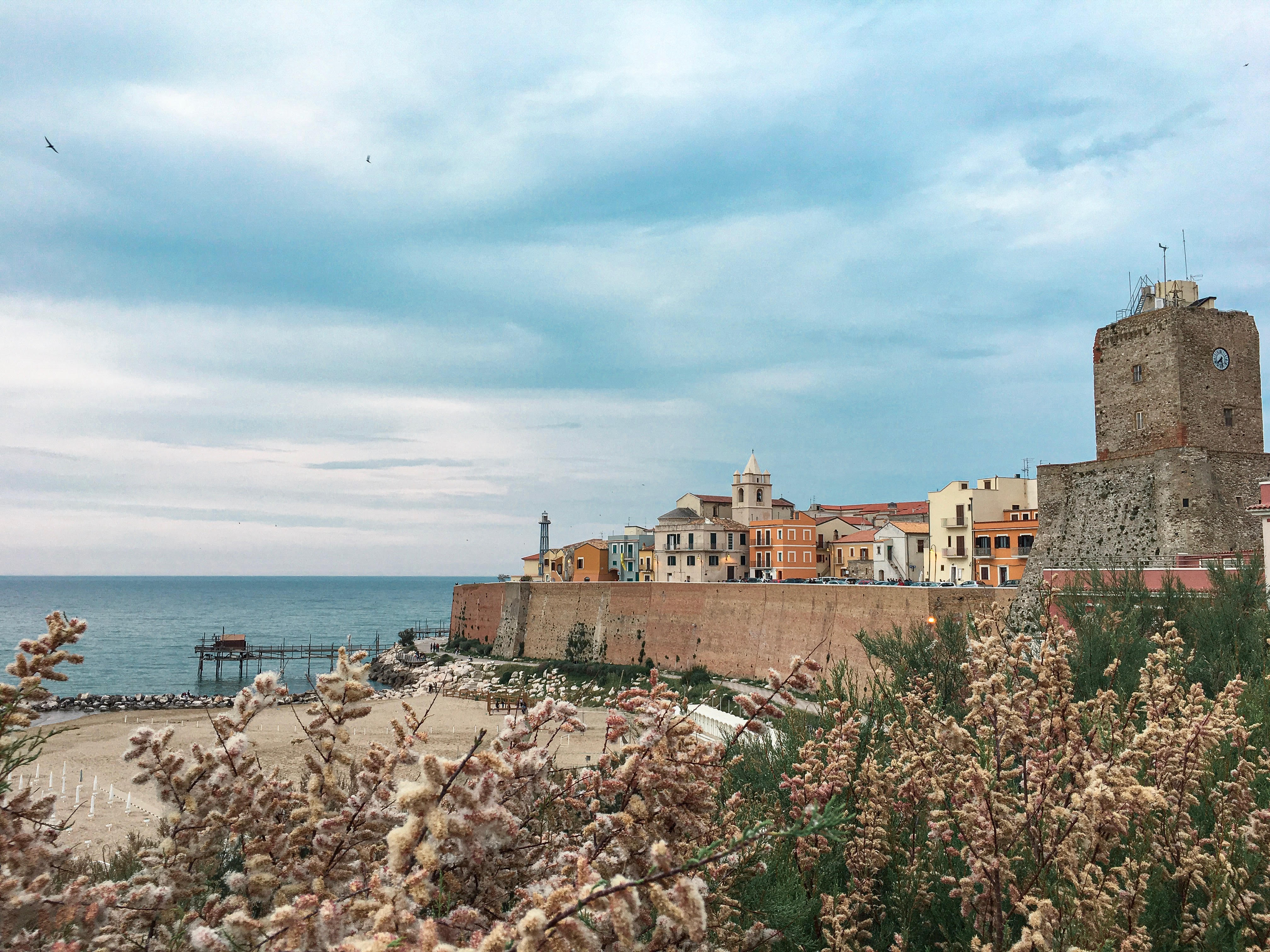 Ancient Village of Termoli